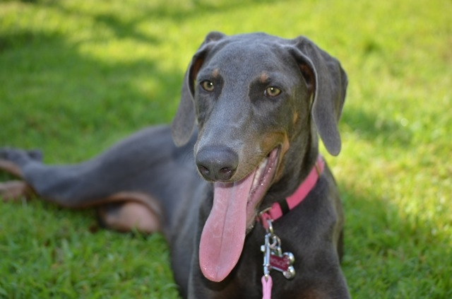 natural ears, blue doberman, dobermann